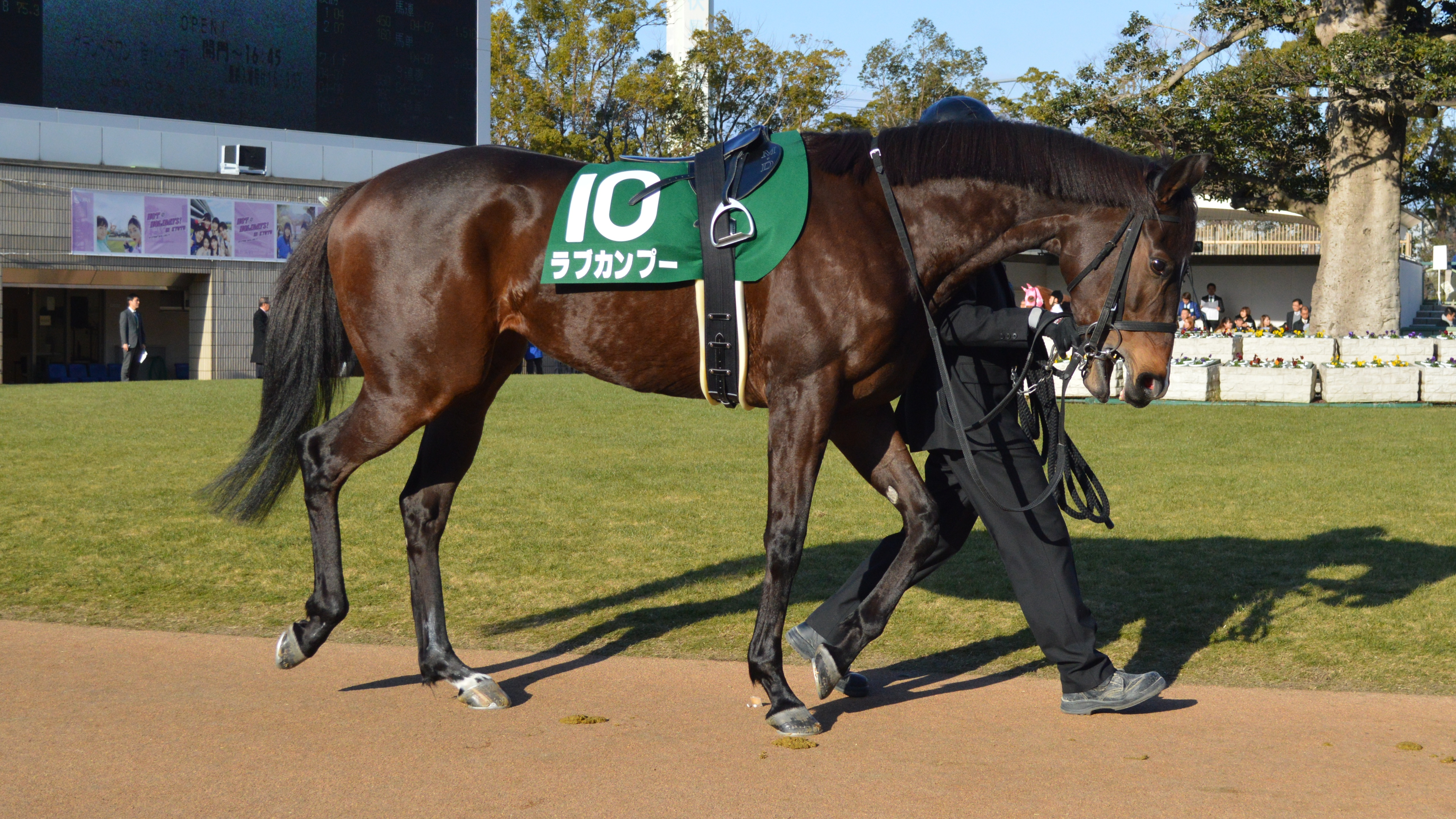 Japanese race horse Love Kampf at Kyoto racecourse.